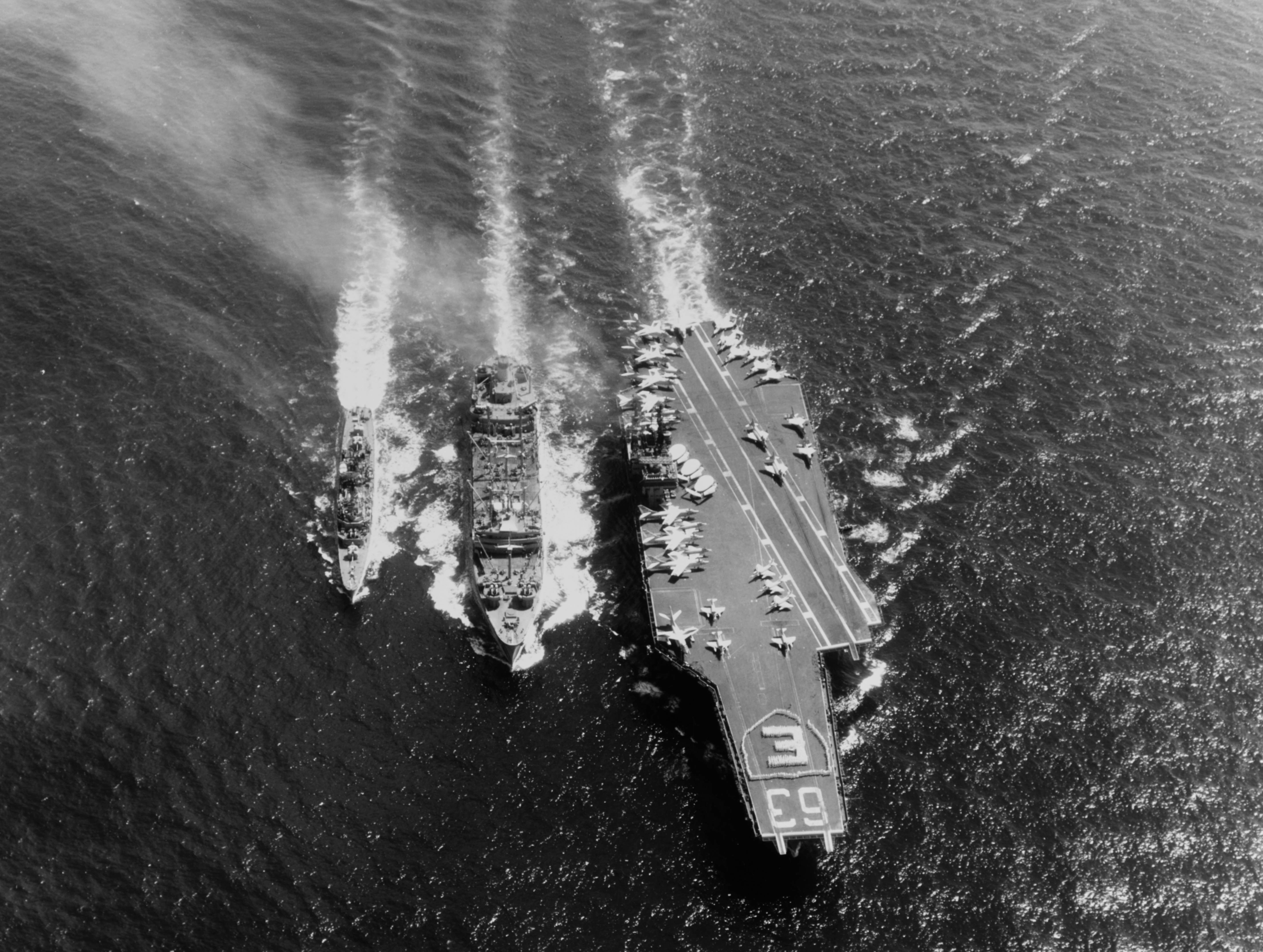 The U.S. Navy aircraft carrier USS Kitty Hawk (CVA-63) and the destroyer USS Turner Joy (DD-951) refueling from the fleet olier USS Kawishiwi (AO-146) on 23 April 1964. Note the large E in a shield spelled out by crewmen on the carrier's flight deck. Kitty Hawk, with assigned Carrier Air Wing 11 (CVW-11), was deployed to the Western Pacific from 17 October 1963 to 20 July 1964.